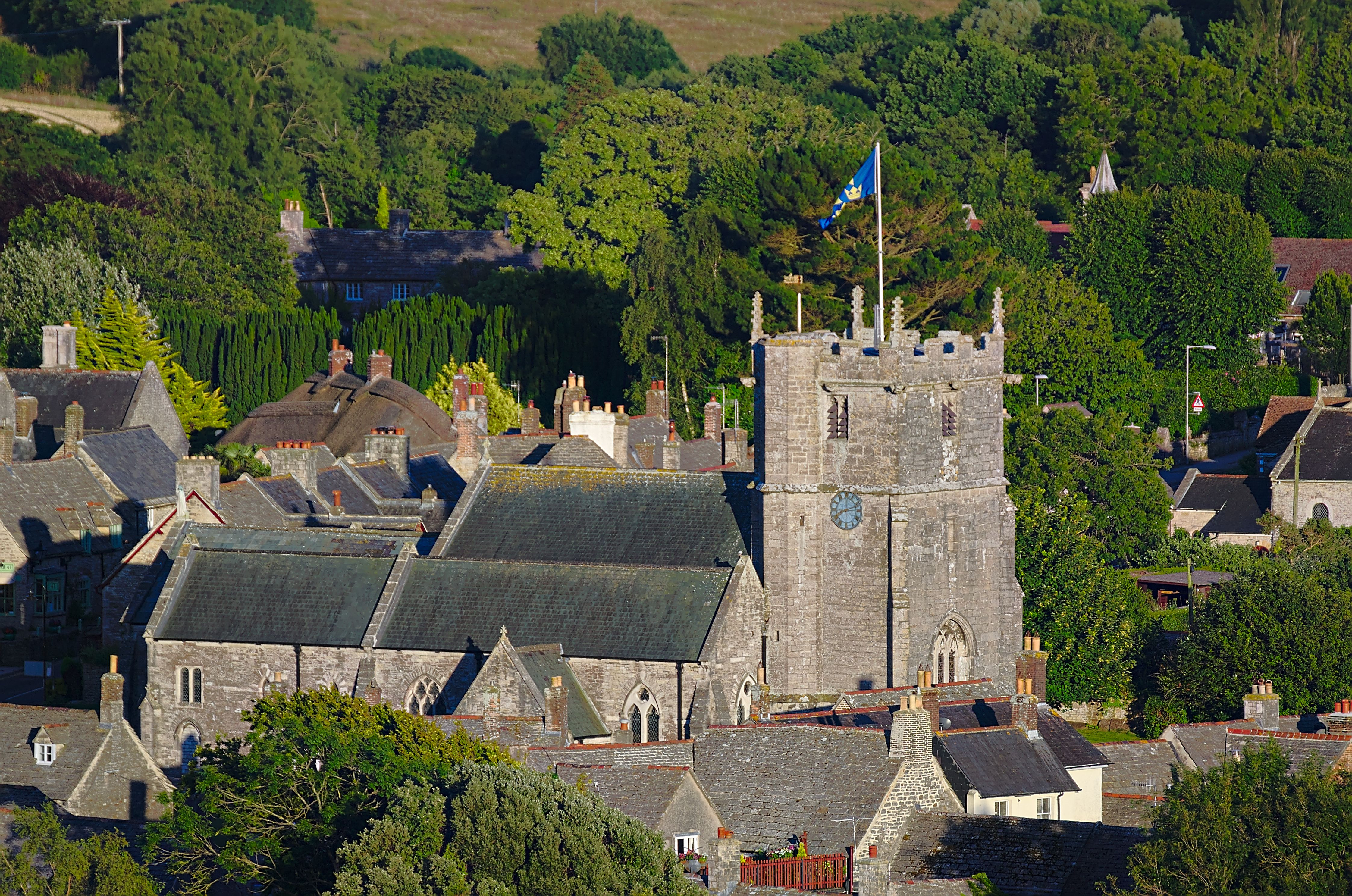 Photo of the Church in Corfe, 27, East Street taken from a nearby hill Wikidata has entry Q26413487 with data related to this item.